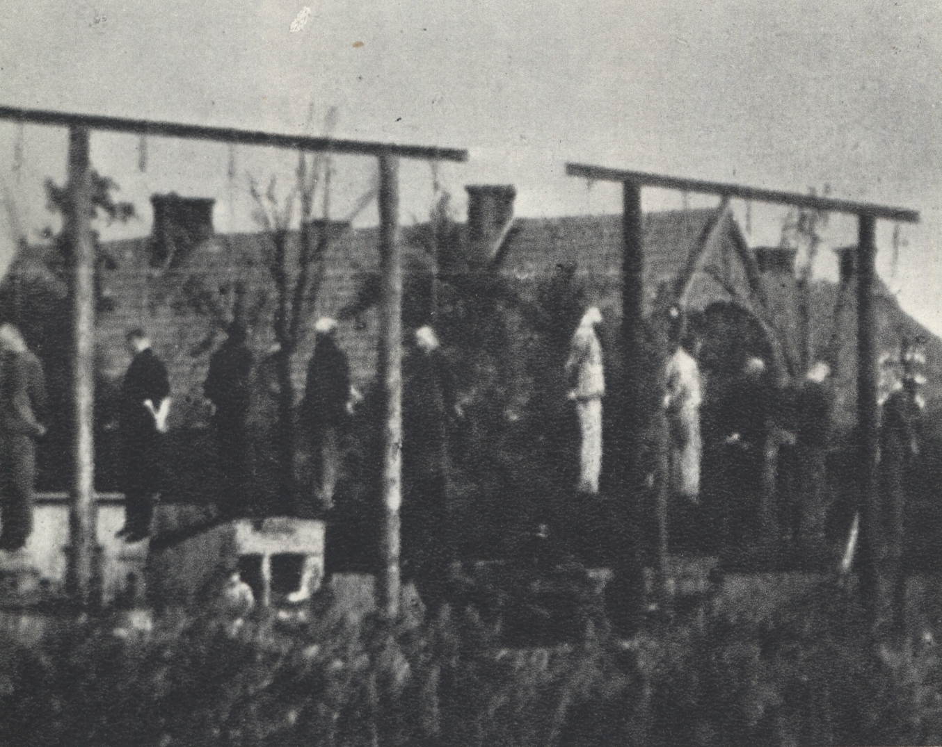 Public execution of Polish hostages in German-occupied Poland. Marki near Warsaw, 16th October 1942.